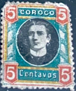 A bogus stamp of the Coroco fantasy state on the cover of the novel: The Clue of the Postage Stamp, by Arthur Bray (1913).